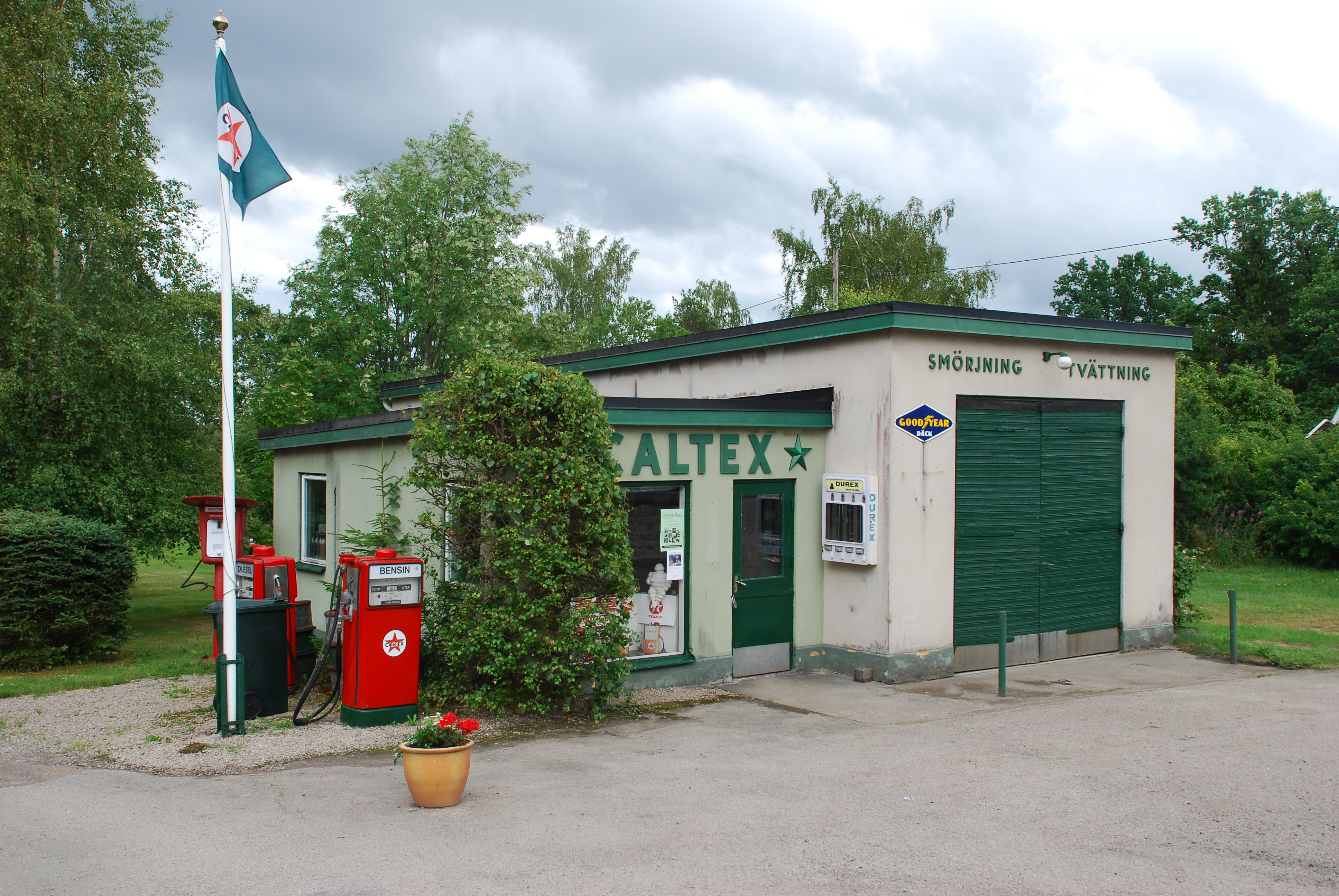 Preserved Caltex petrol station in Berg, Småland